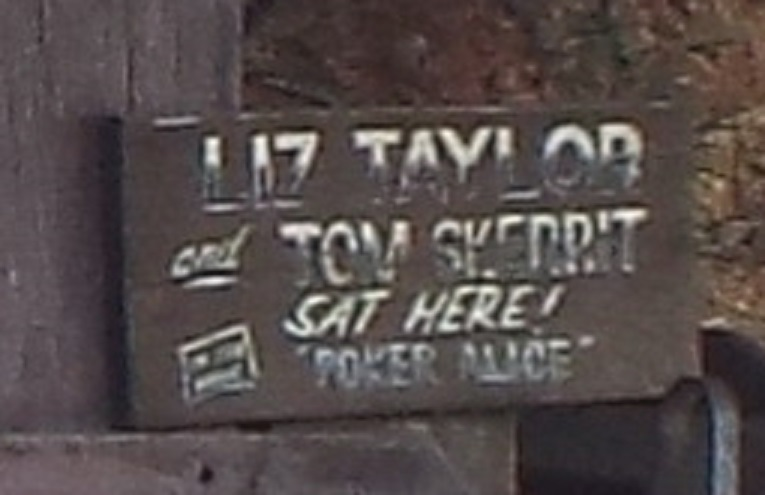 Sign on the A 1895 Bain 9-A Buckboard in the La Casa del High Jinks Ranch in Oracle. Az.